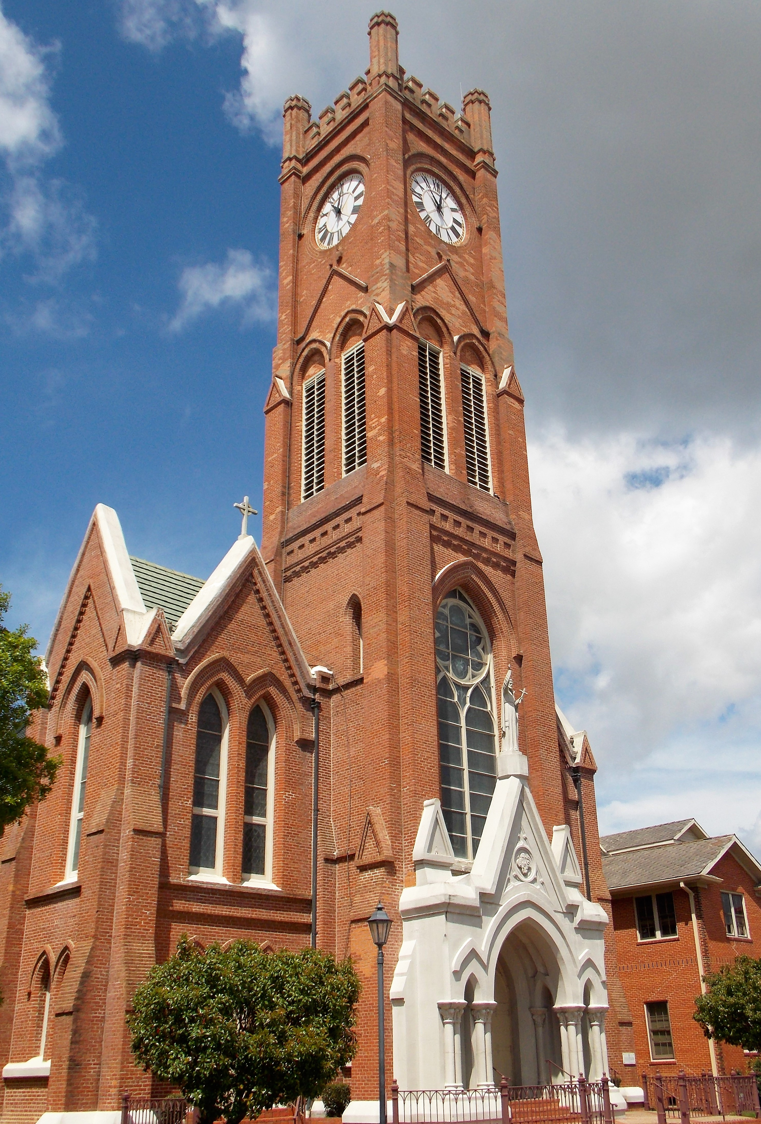 St. Francis Xavier Cathedral (Alexandria, Louisiana. It is listed on the National Register of Historic Places.